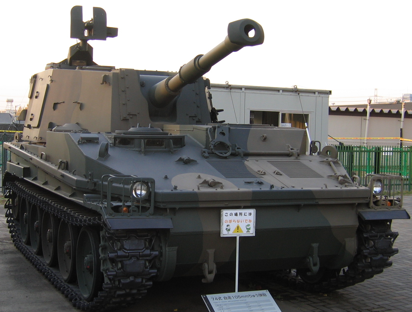 Left-front view of the Type 74 self-propelled howitzer at the JSDF Public Information Museum